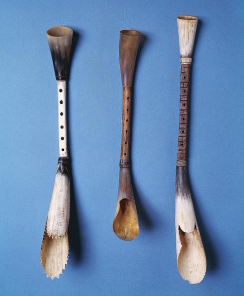 Pibgorn